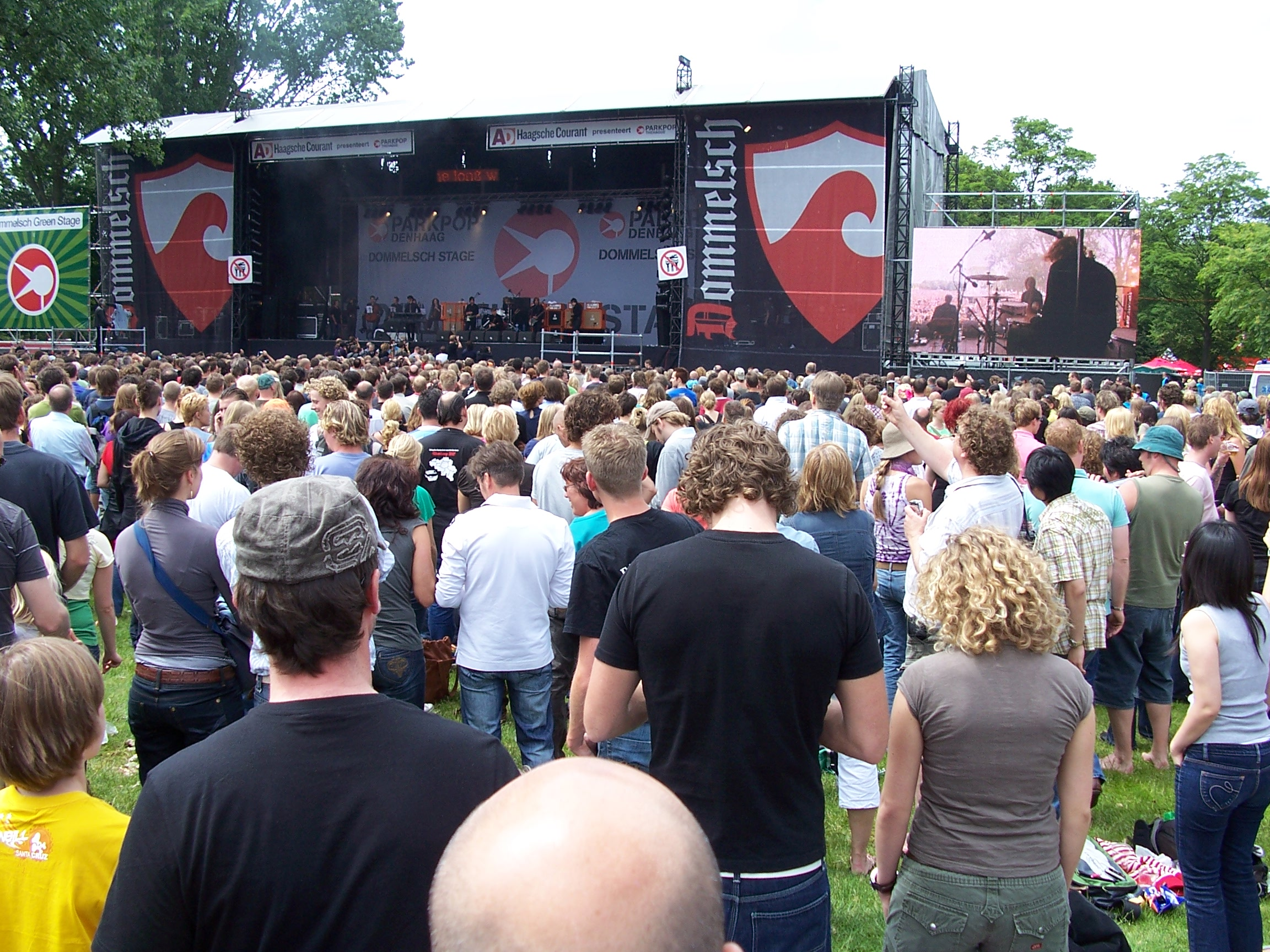 Dommelsch stage at Parkpop 2008 in The Hague